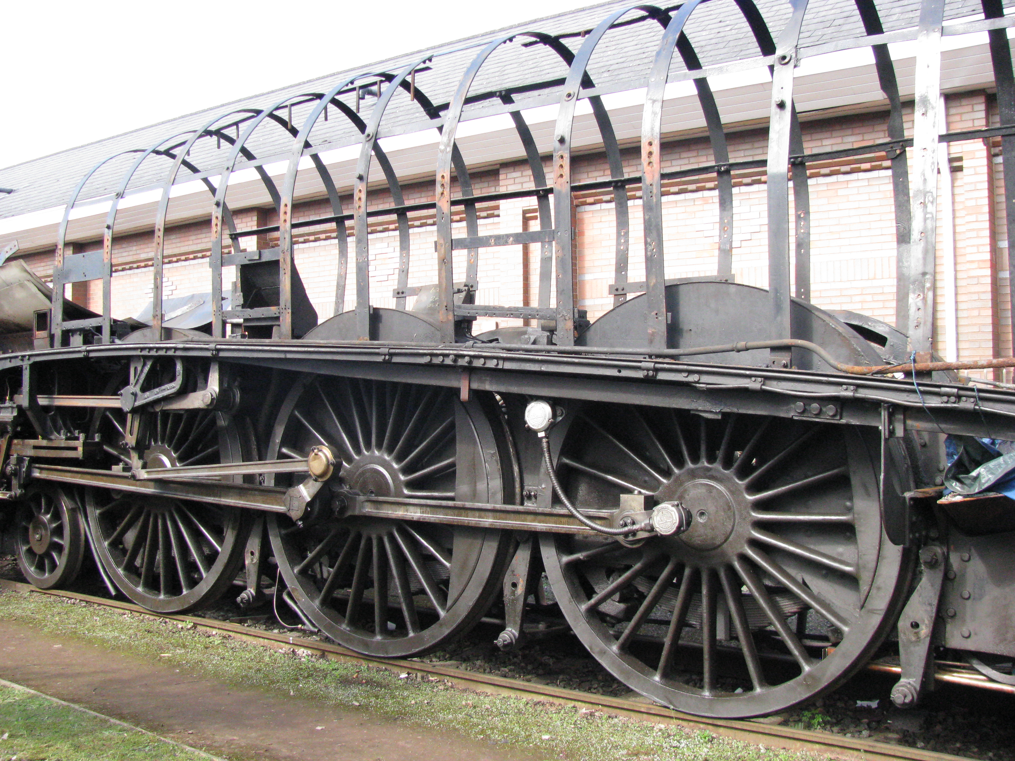 Streamline frames on chassis of 60009